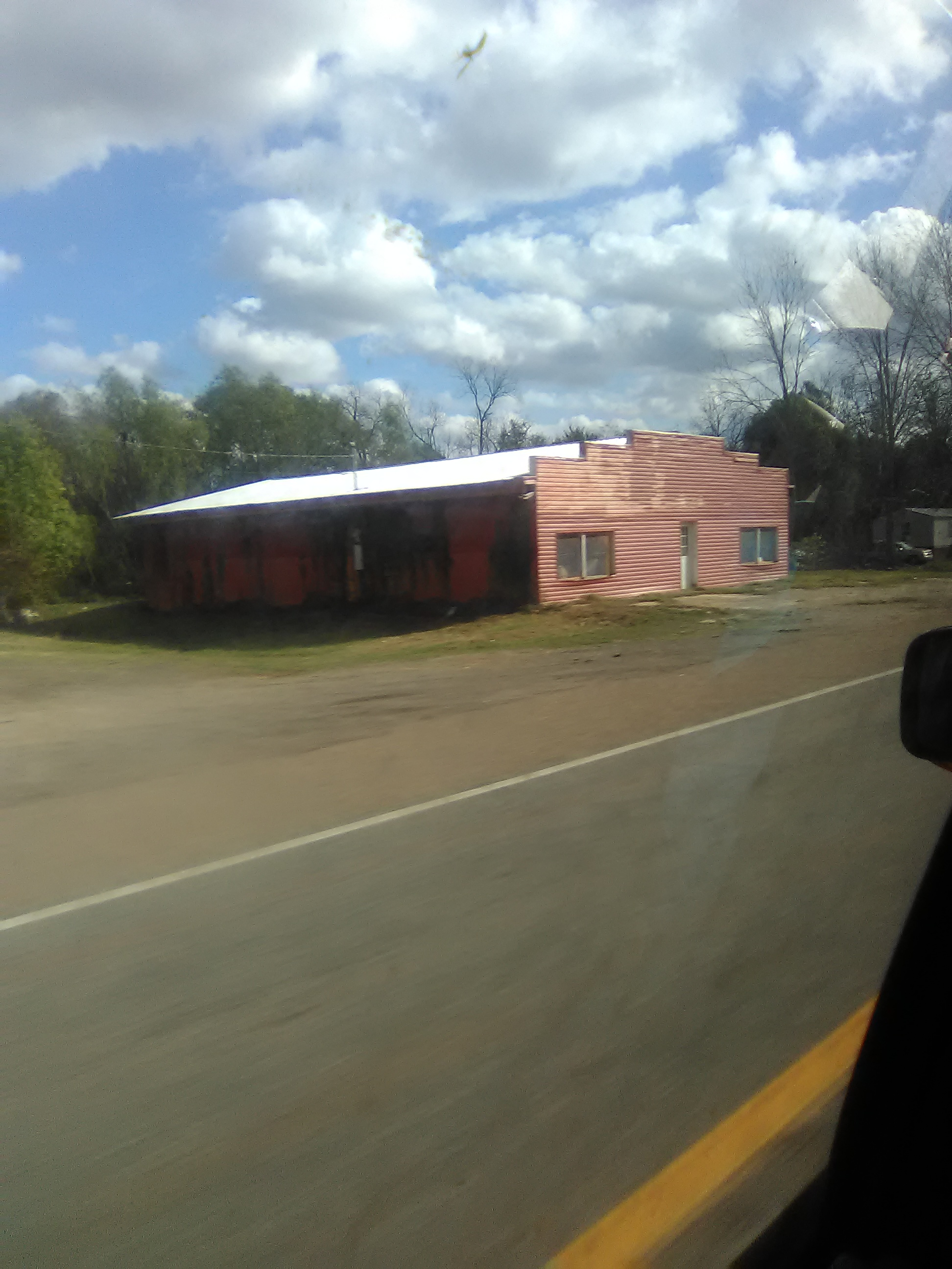 I'm Taken This With Alcatel